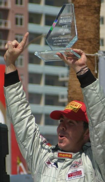 Justin Sofio receive his trophy after his win at the Long Beach Grand Prix of 2004